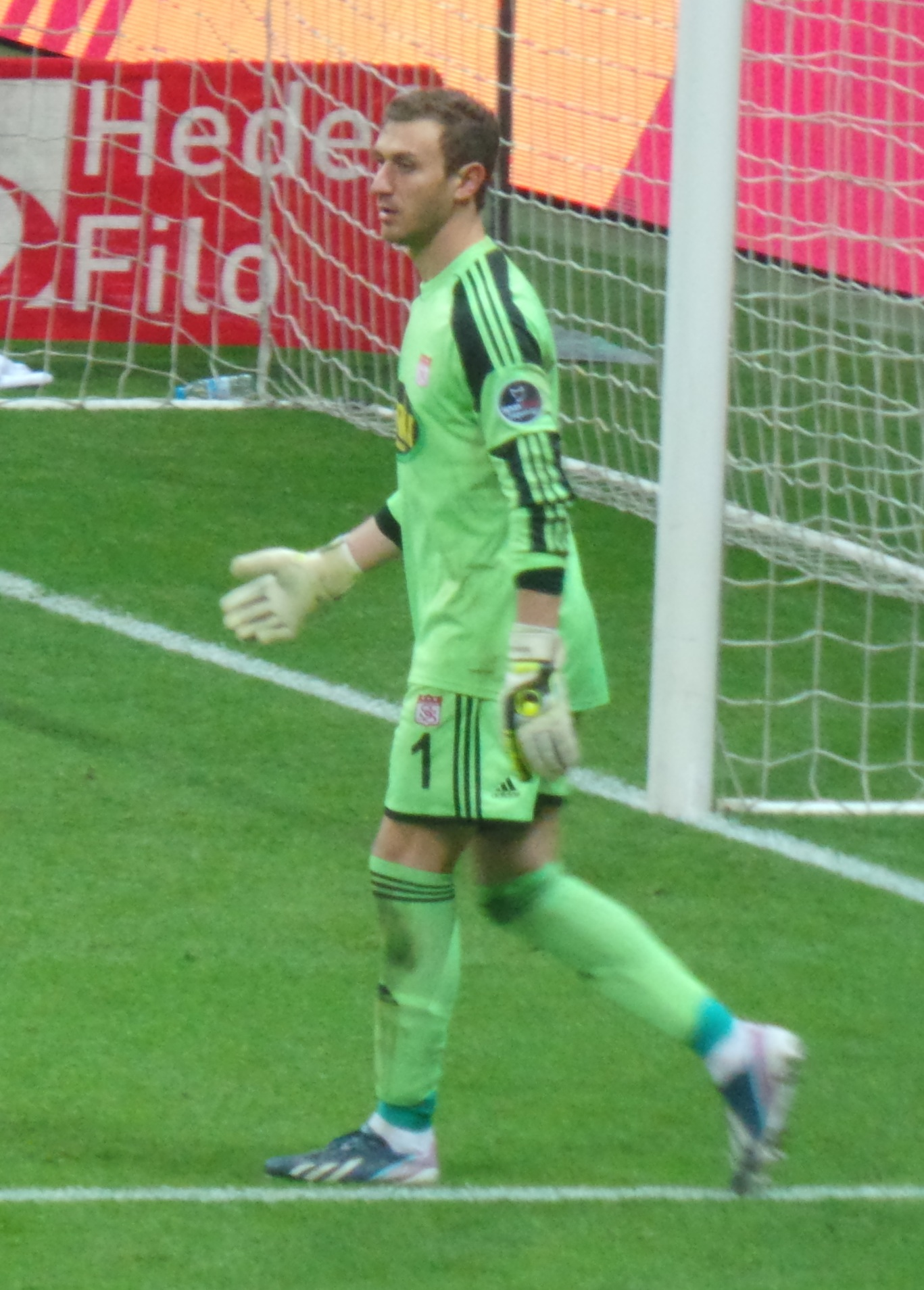 Korcan Çelikay